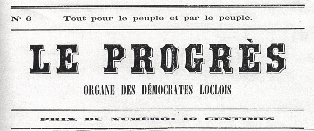 Le Progrès was the first anarchist periodical in Switzerland. It was edited by James Guillaume and published from December 18, 1868 until 1870.